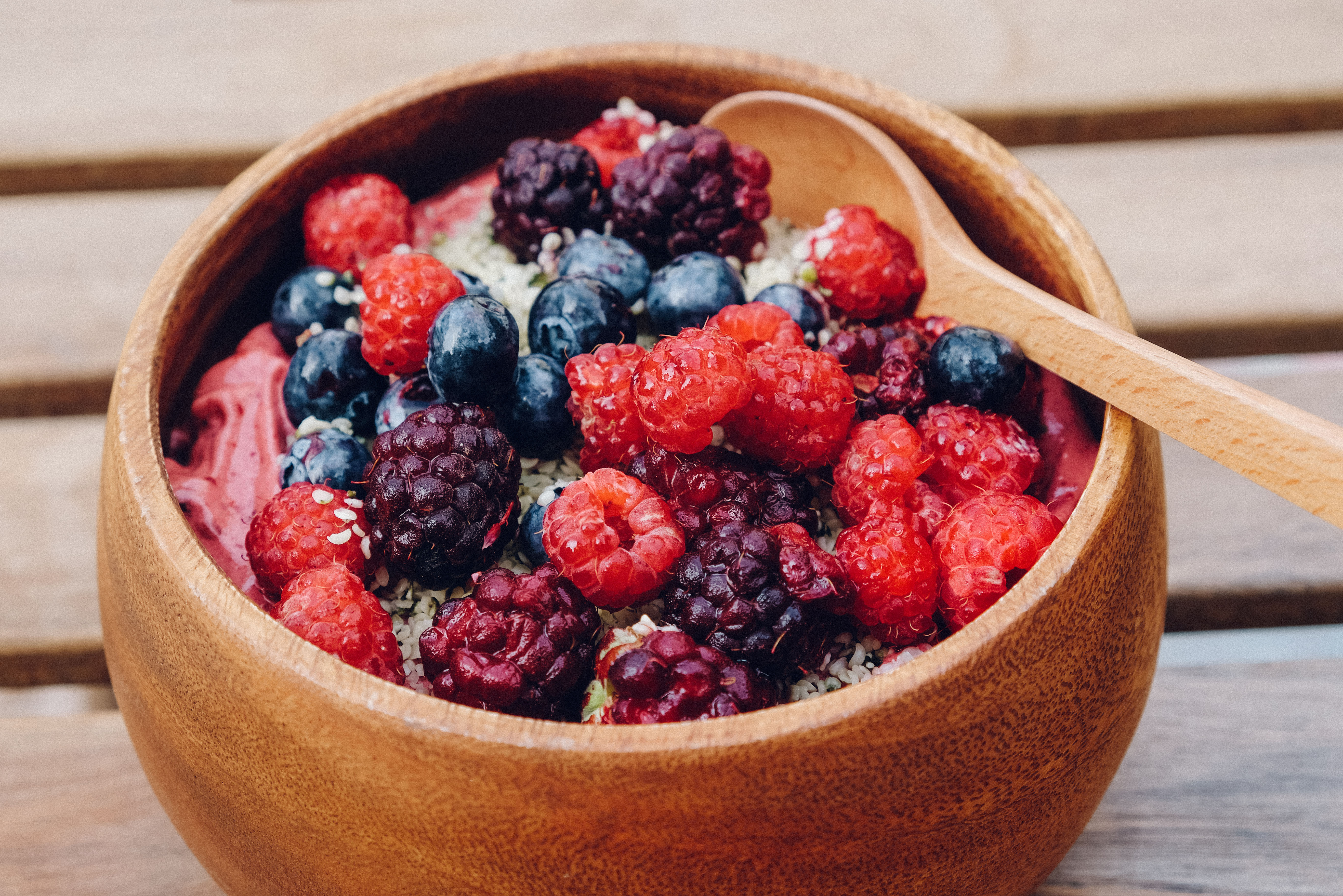 Berries Galore Acai Bowl